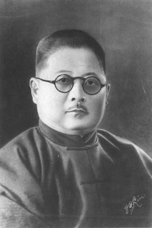 Ji Hongchang (1895－1934)